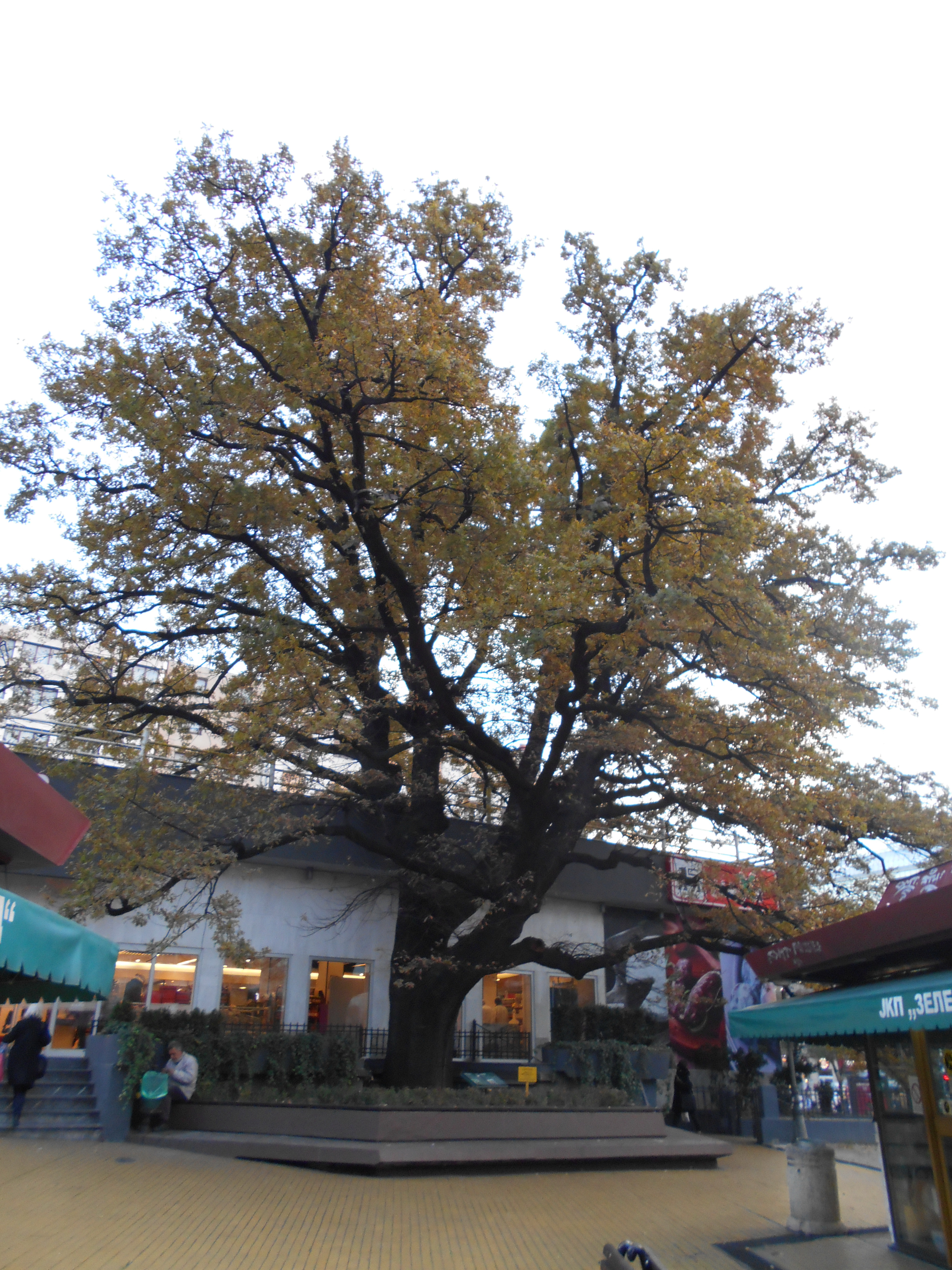 English oak (Quercus robur) on Cvetni trg in Belgrade is Belgrade's oldest tree. Under state protection as a natural monument Category III.